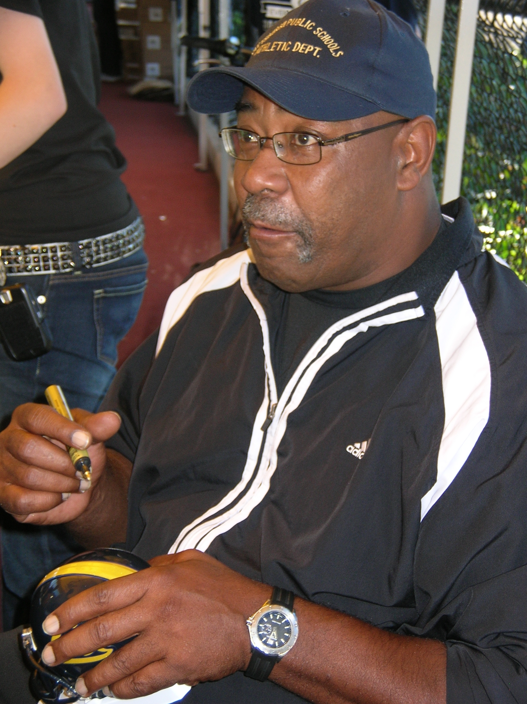 Former San Diego Chargers, New Orleans Saints, and Cal running back Chuck Muncie making an appearance at the Fun Zone on Maxwell Family Field prior to a Cal home game against the UCLA Bruins. The Golden Bears won 41-20.